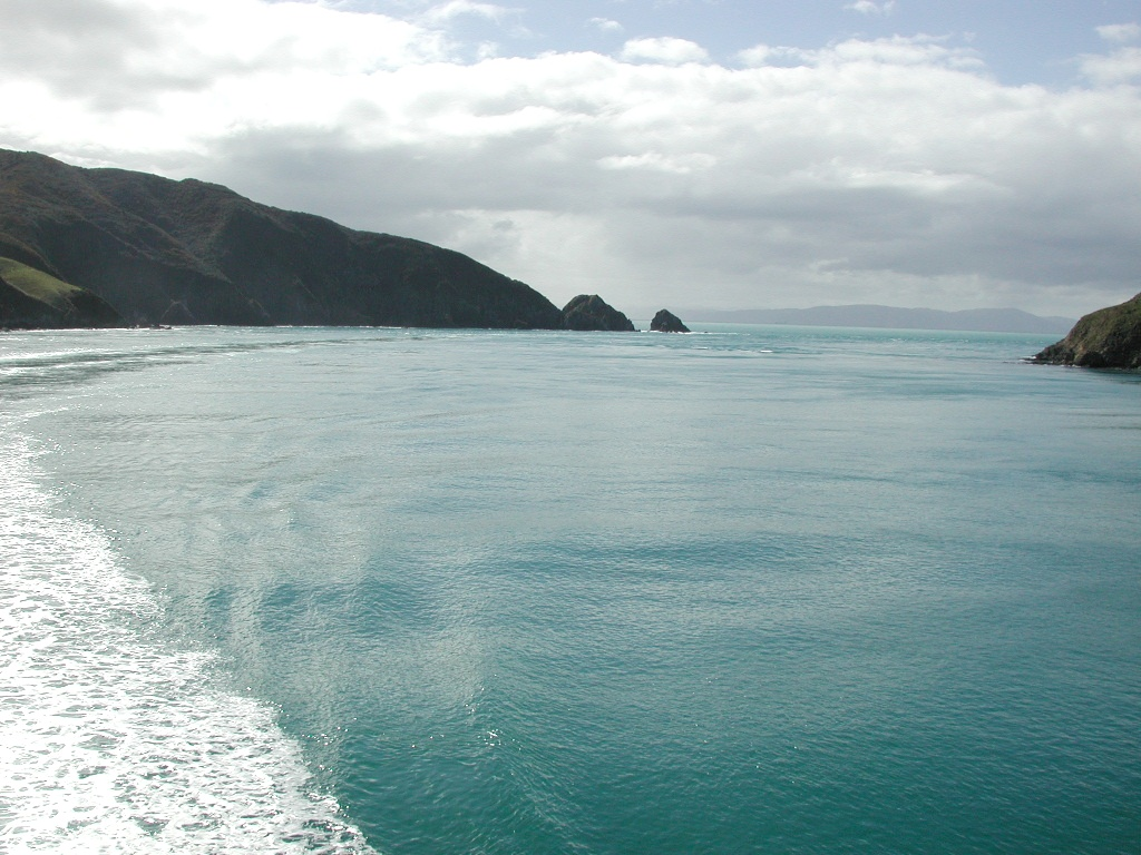 Wake of ferry entering Tory Channel from Cook Strait